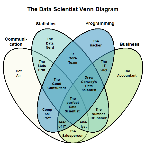 Data scientist Venn diagram